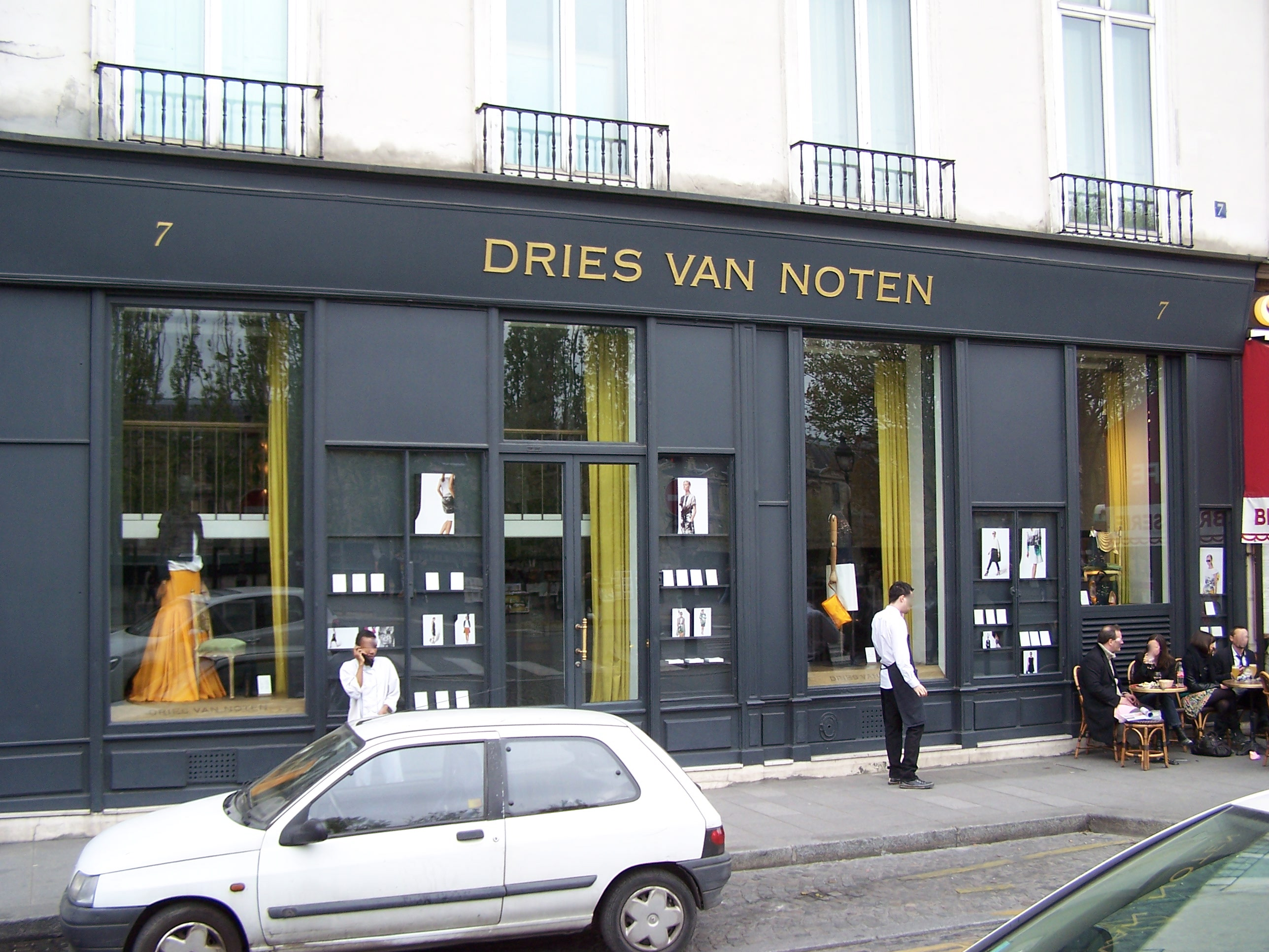 Dries Van Noten's boutique in Paris at quai Malaquais